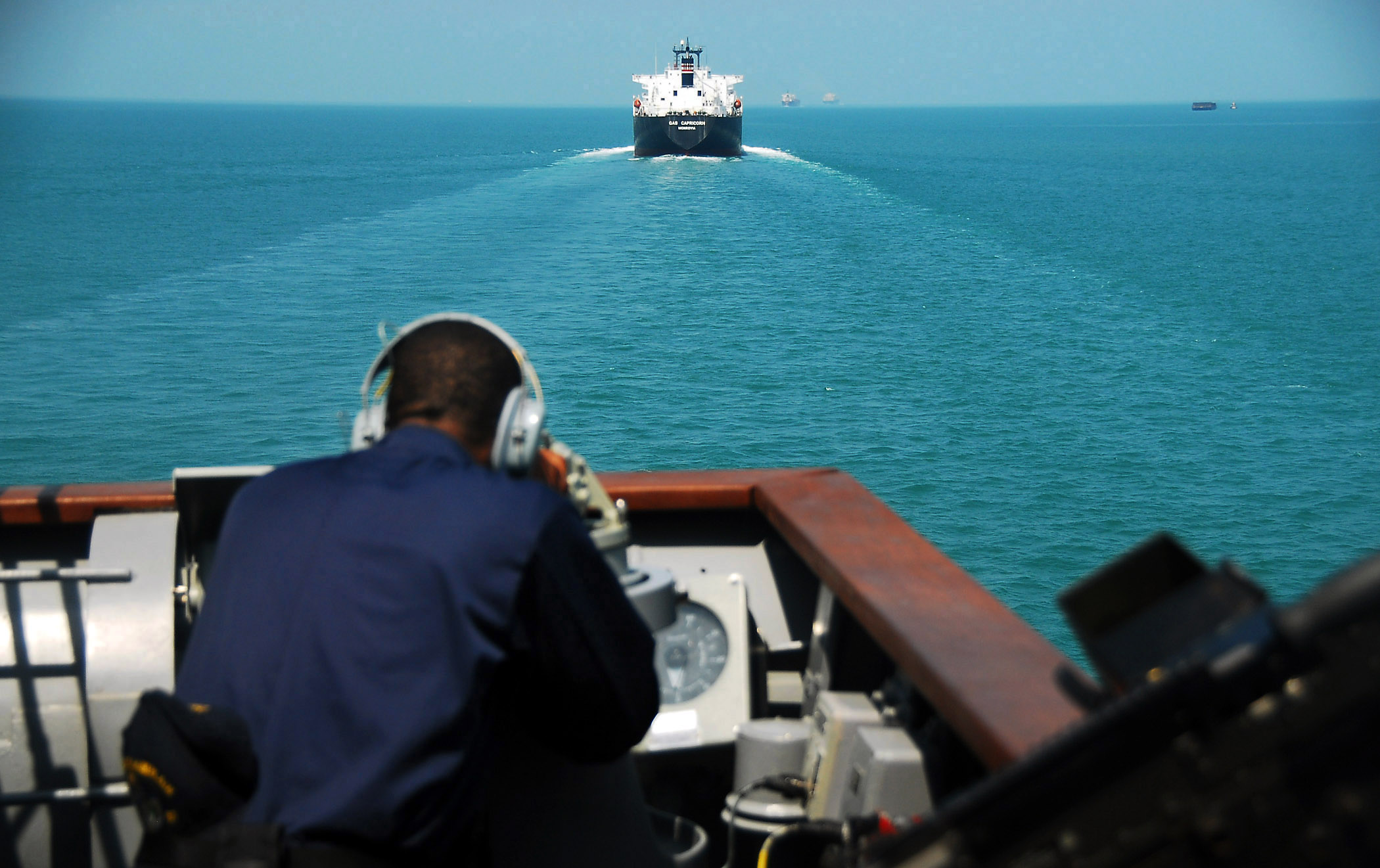 STRAITS OF MALACCA (Feb. 10, 2009) A Sailor standing watch aboard the guided-missile cruiser USS Lake Champlain (CG 57) observes boat traffic while transiting the Straits of Malacca. Lake Champlain is part of the Boxer Expeditionary Strike Group and is on a scheduled deployment to the western Pacific Ocean supporting global maritime security. (U.S. Navy photo by Mass Communication Specialist 2nd Class Daniel Barker/Released)